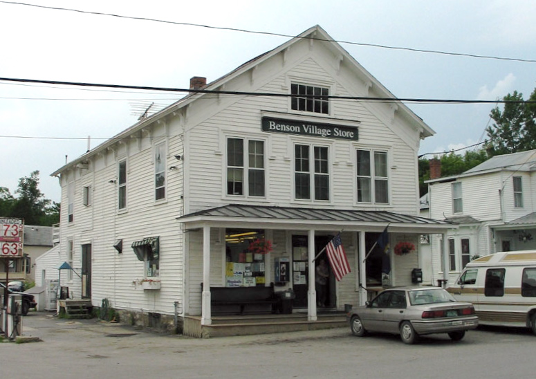 Photograph of Benson, Vermont Village Store